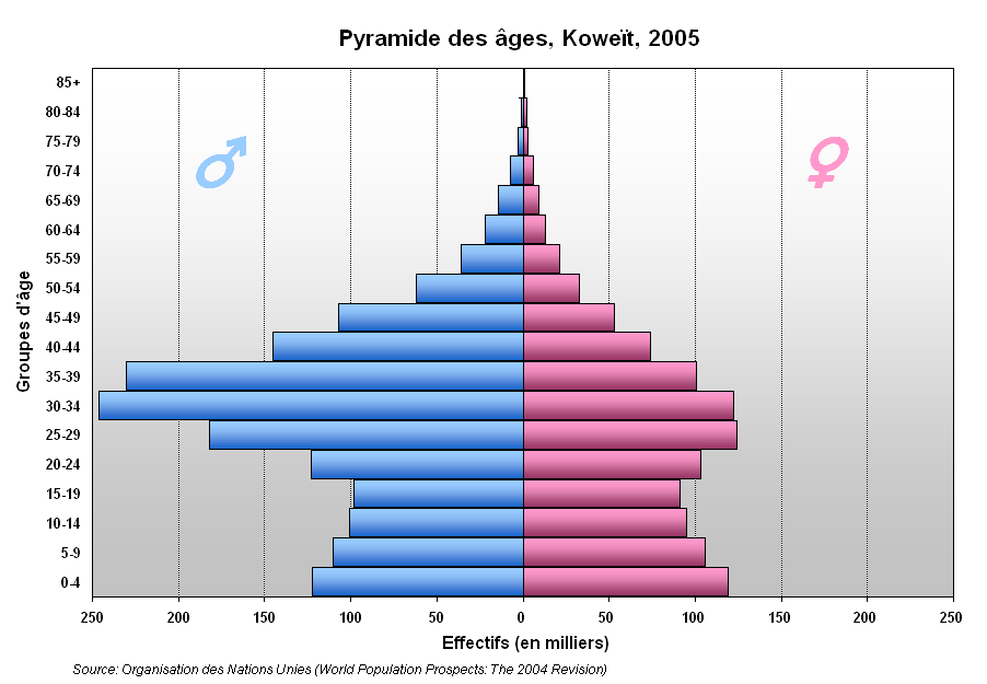 Koweit Population pyramid, 2005